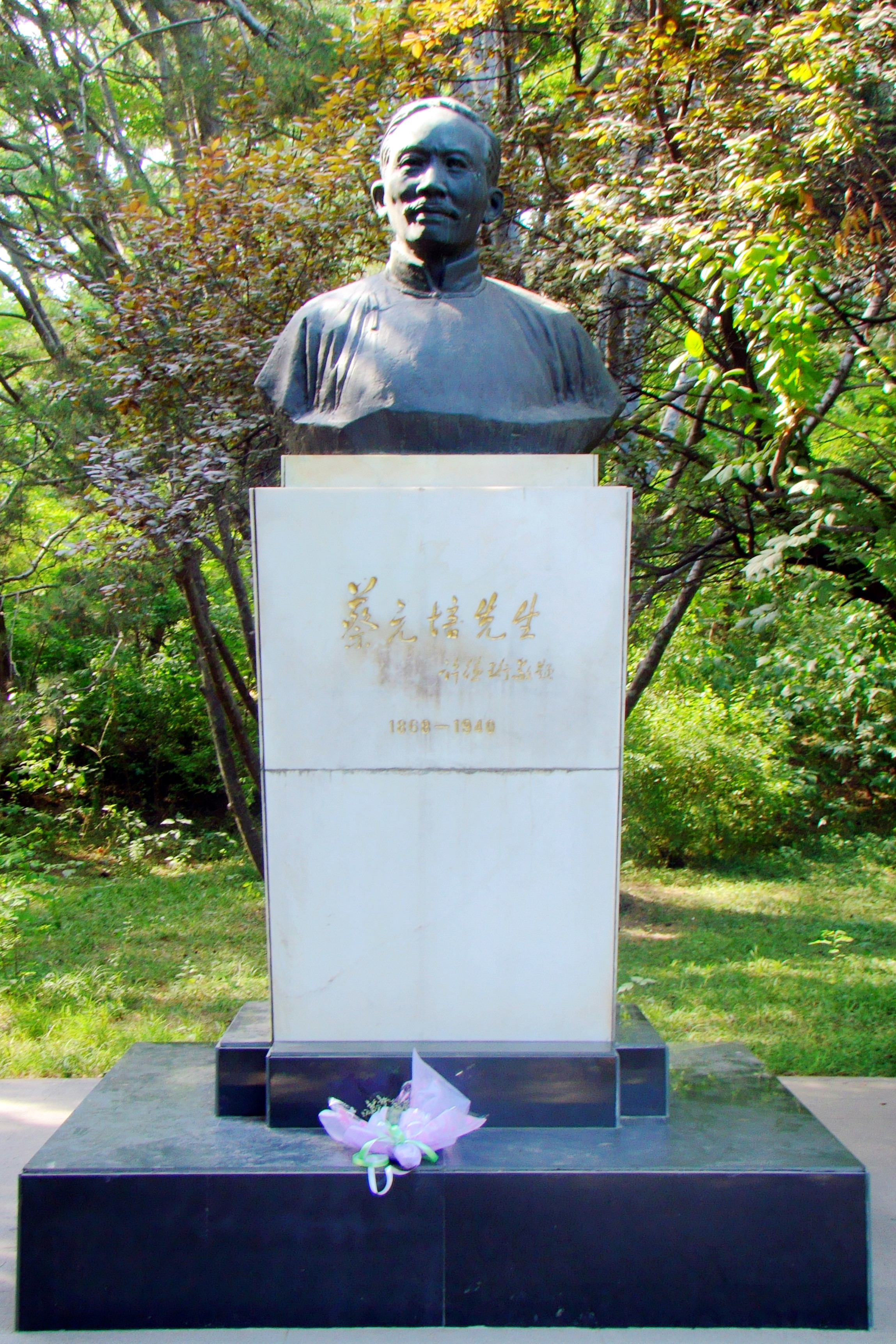 The statue of President Cai Yuanpei. 中文（中国大陆）: 蔡元培先生雕像。北京大学燕园内。